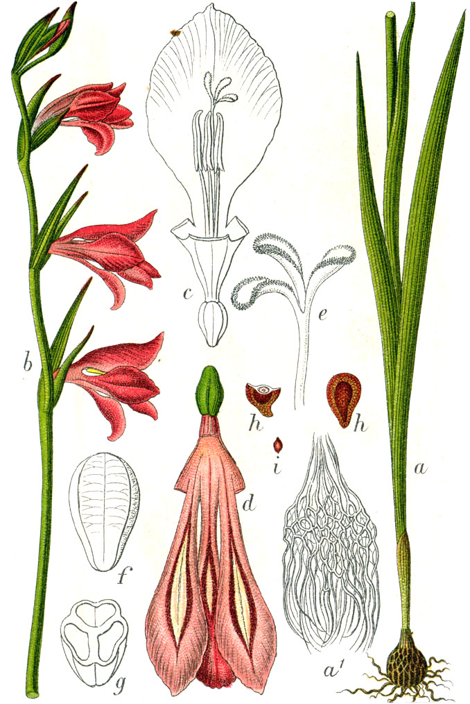 Gladiolus palustris Gaudin Original Caption Runder Allermannsharnisch, Gladiolus paluster